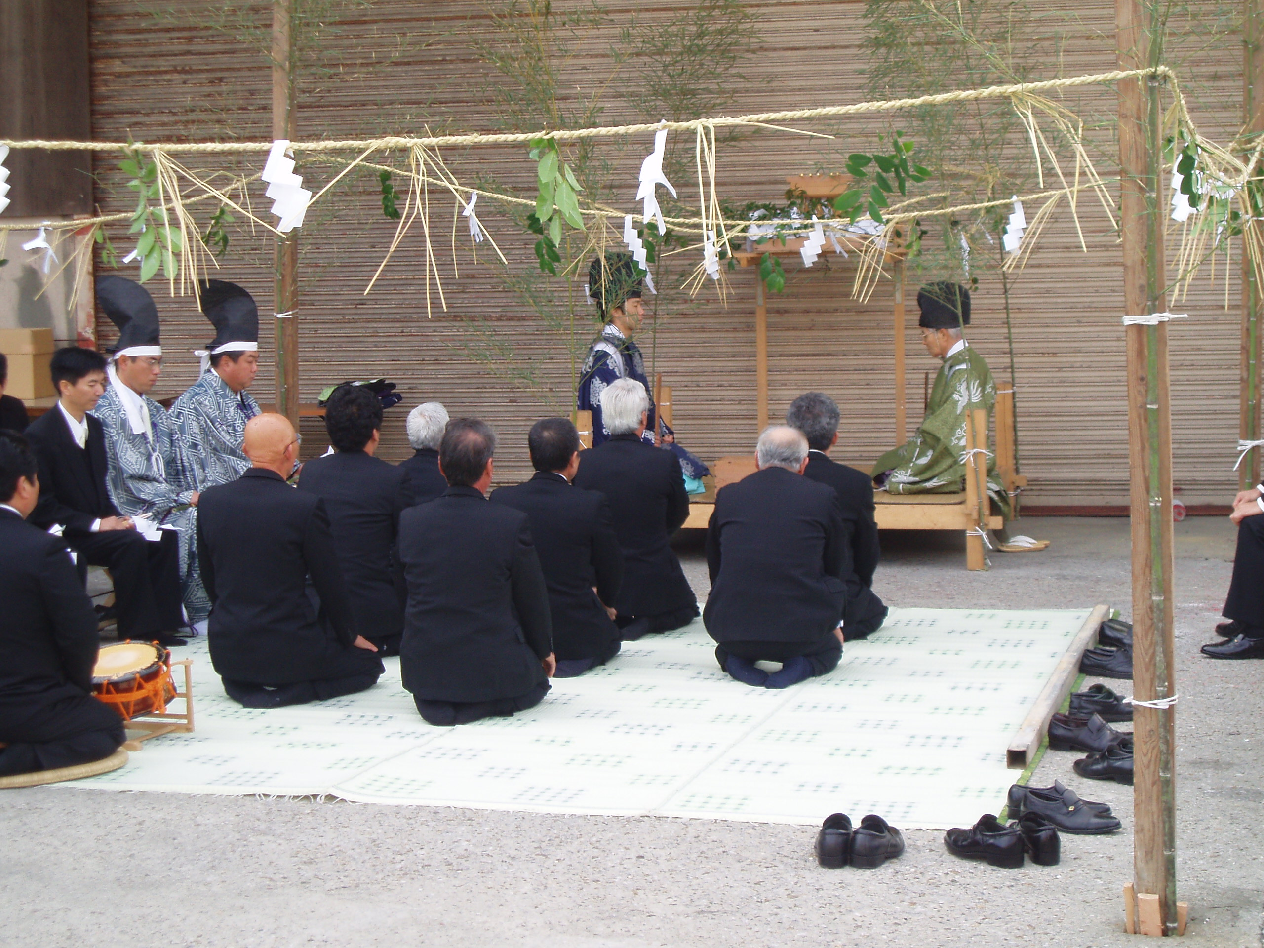 Local men and women waiting to receive the priests' blessing at Misaki's Oise Dance in Ikata, Ehime, Japan